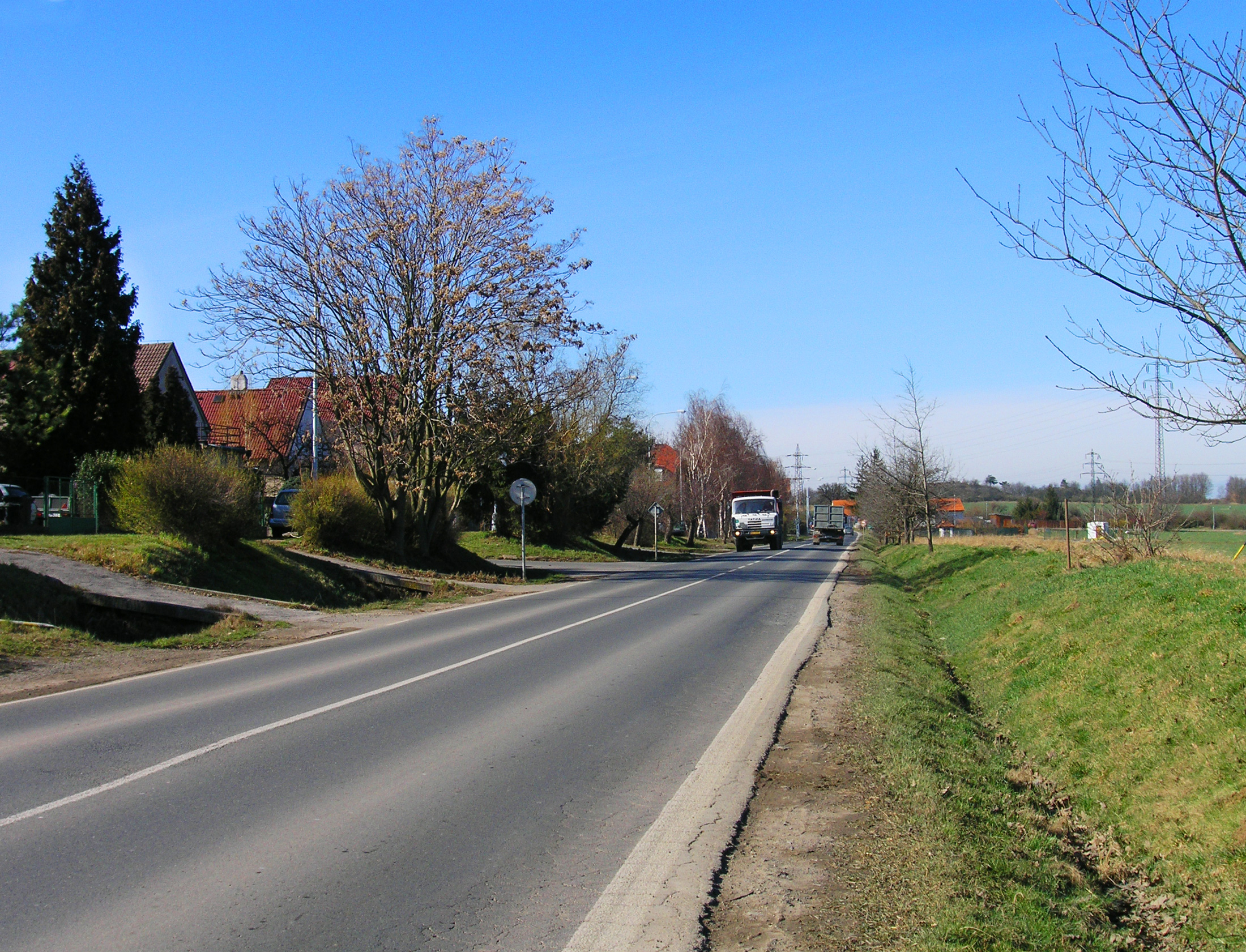 Kamýcká street in Suchdol, Prague